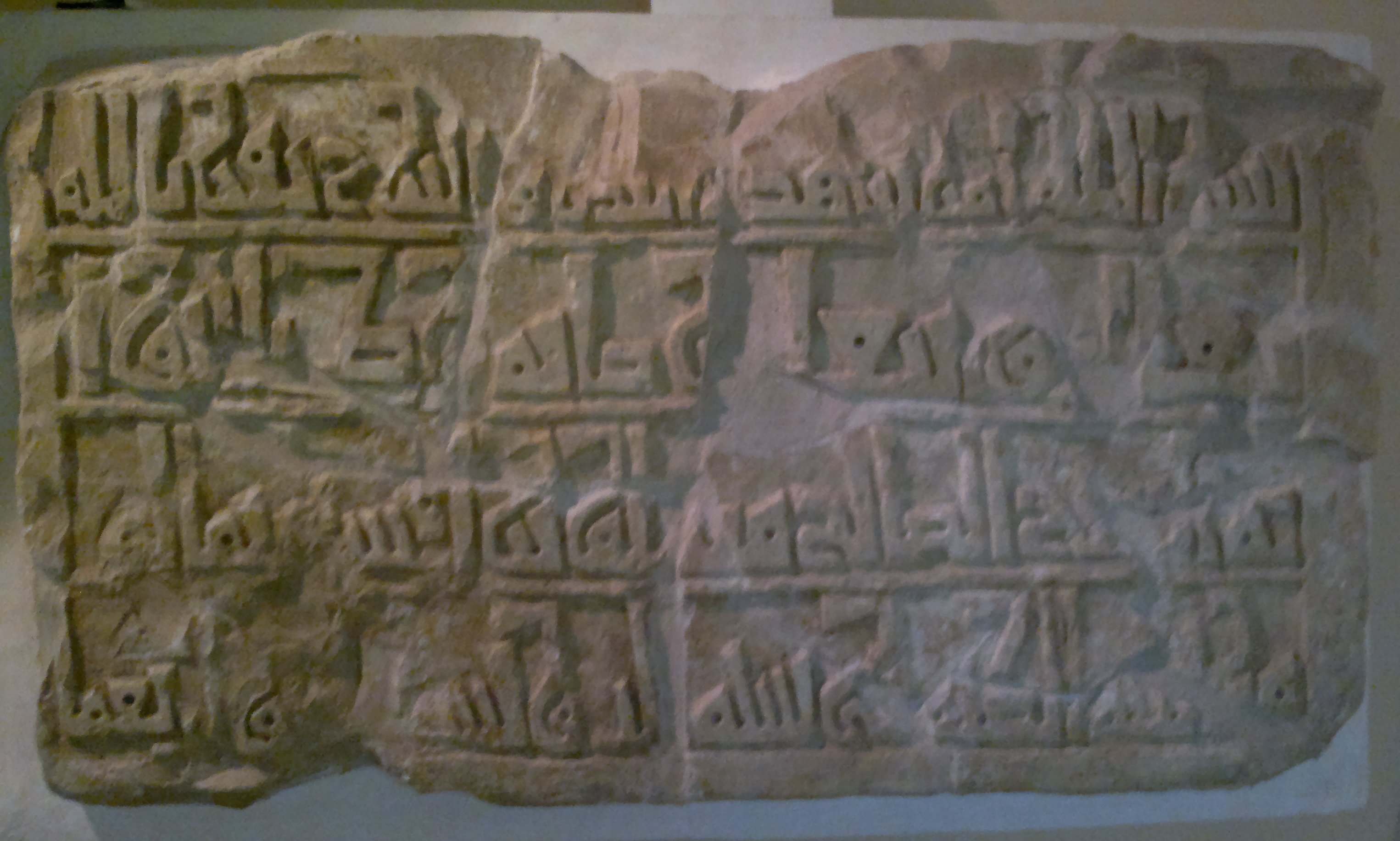 Slab of Shamkir tower. 1099/1100. Museum of History of Azerbaijan, Baku.